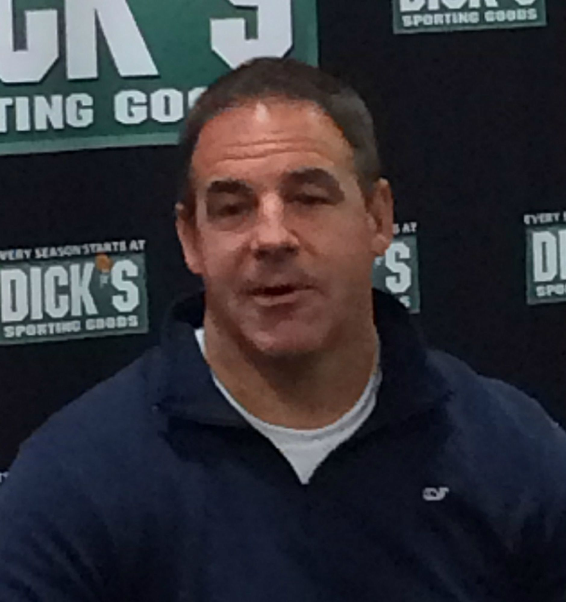 Photo of John LeClair at autograph signing on November 9, 2014.